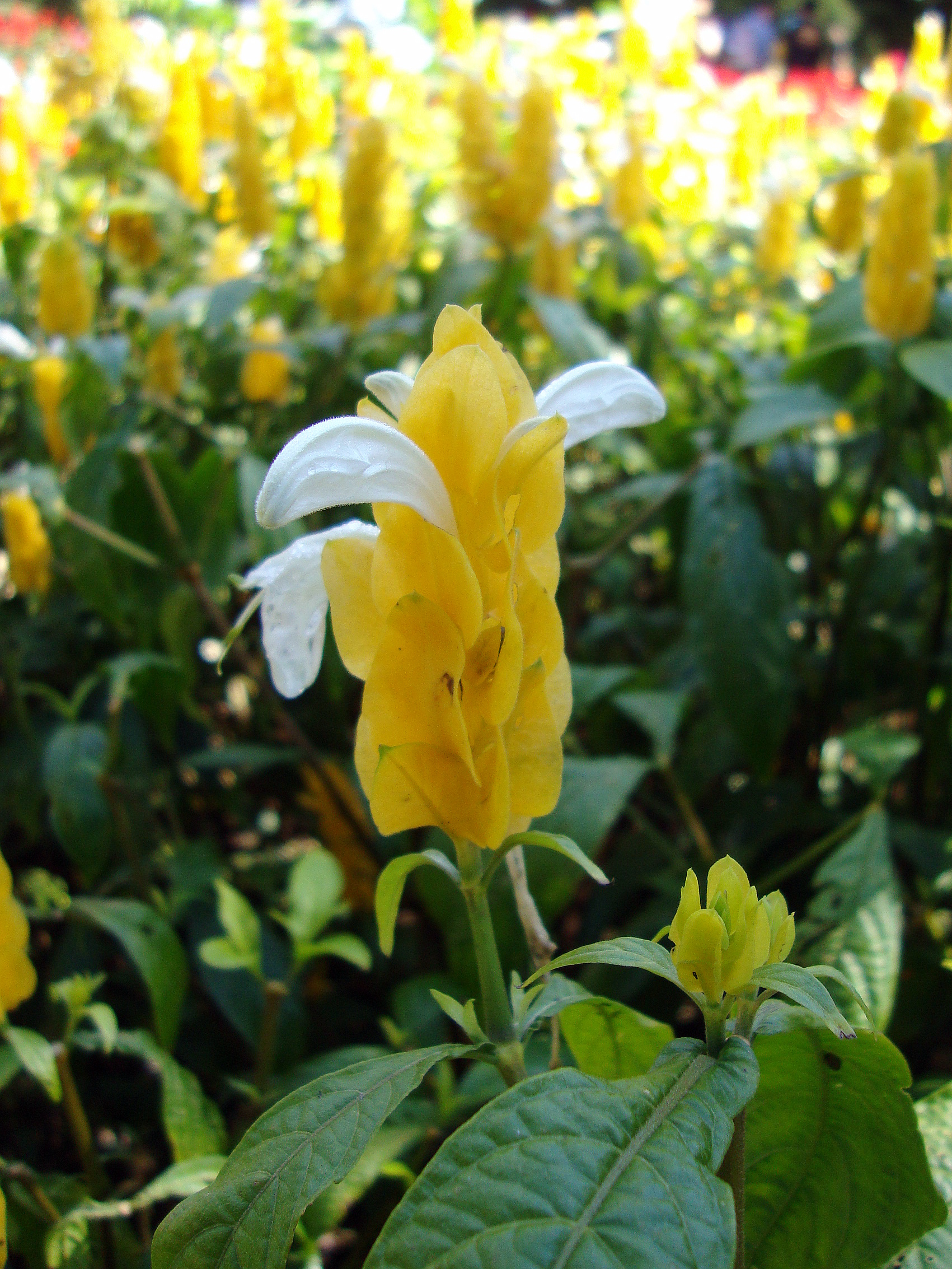 Pachystachys lutea Nees, 1847